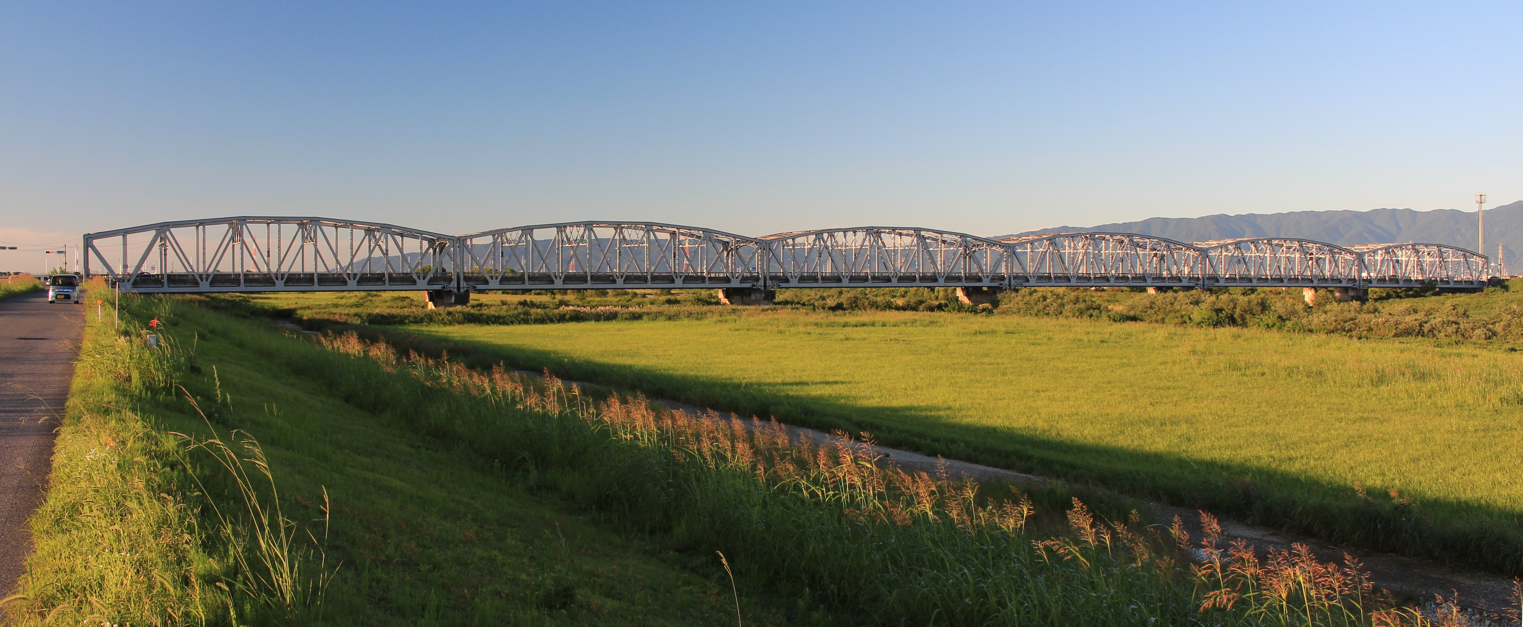 Ibi Bridge (Ibi-Ōhashi) of Gifu Prefectural Road Route 31 over Ibi River in Nishimusubu, Anpachi, Gifu Prefecture, Japan.